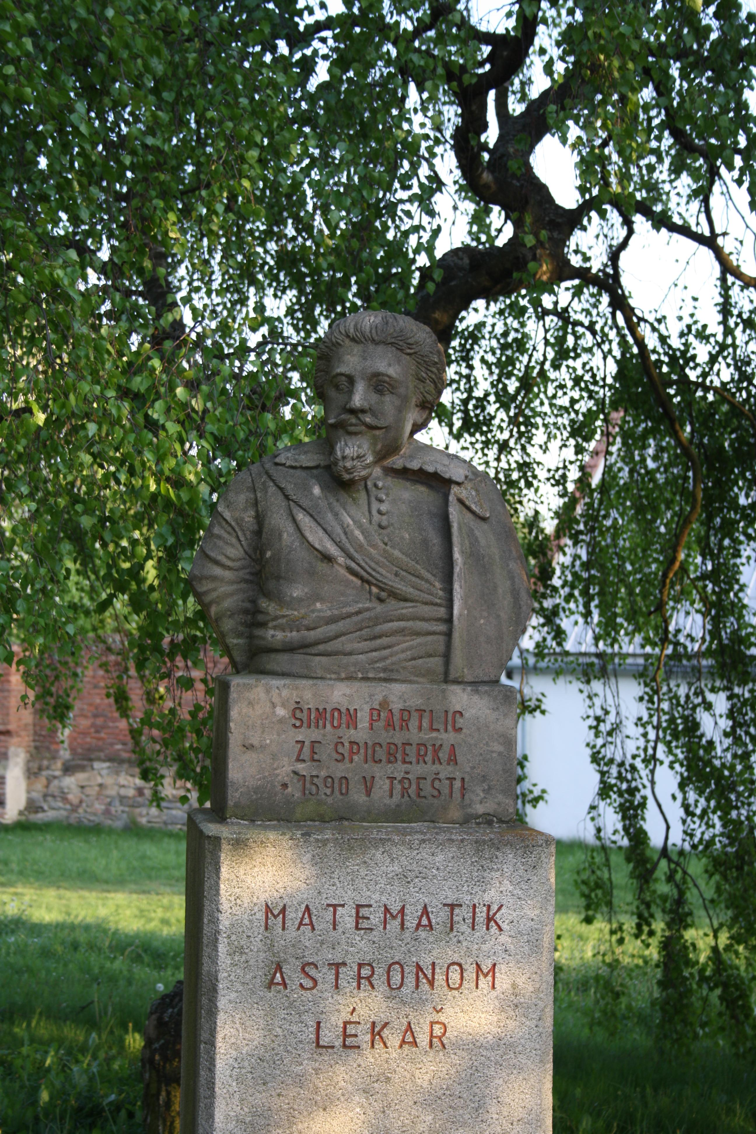 Šimon Partlic from Špicberk bust in Třešť, Czech Republic.